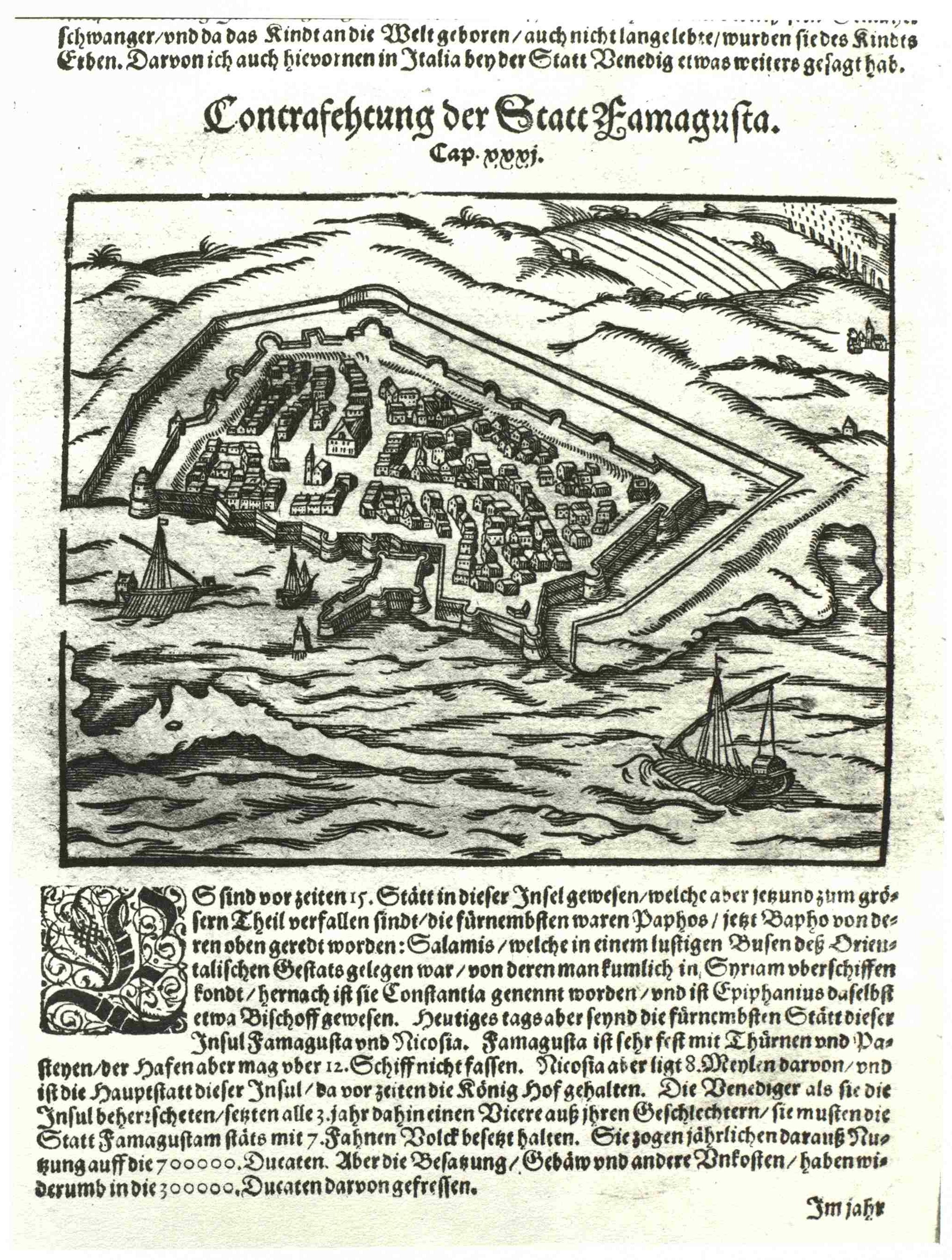 The town of Famagusta (woodcut) in the „Cosmography“ of Sebastian Münster, printed at Basel in 1578 and again in 1628.